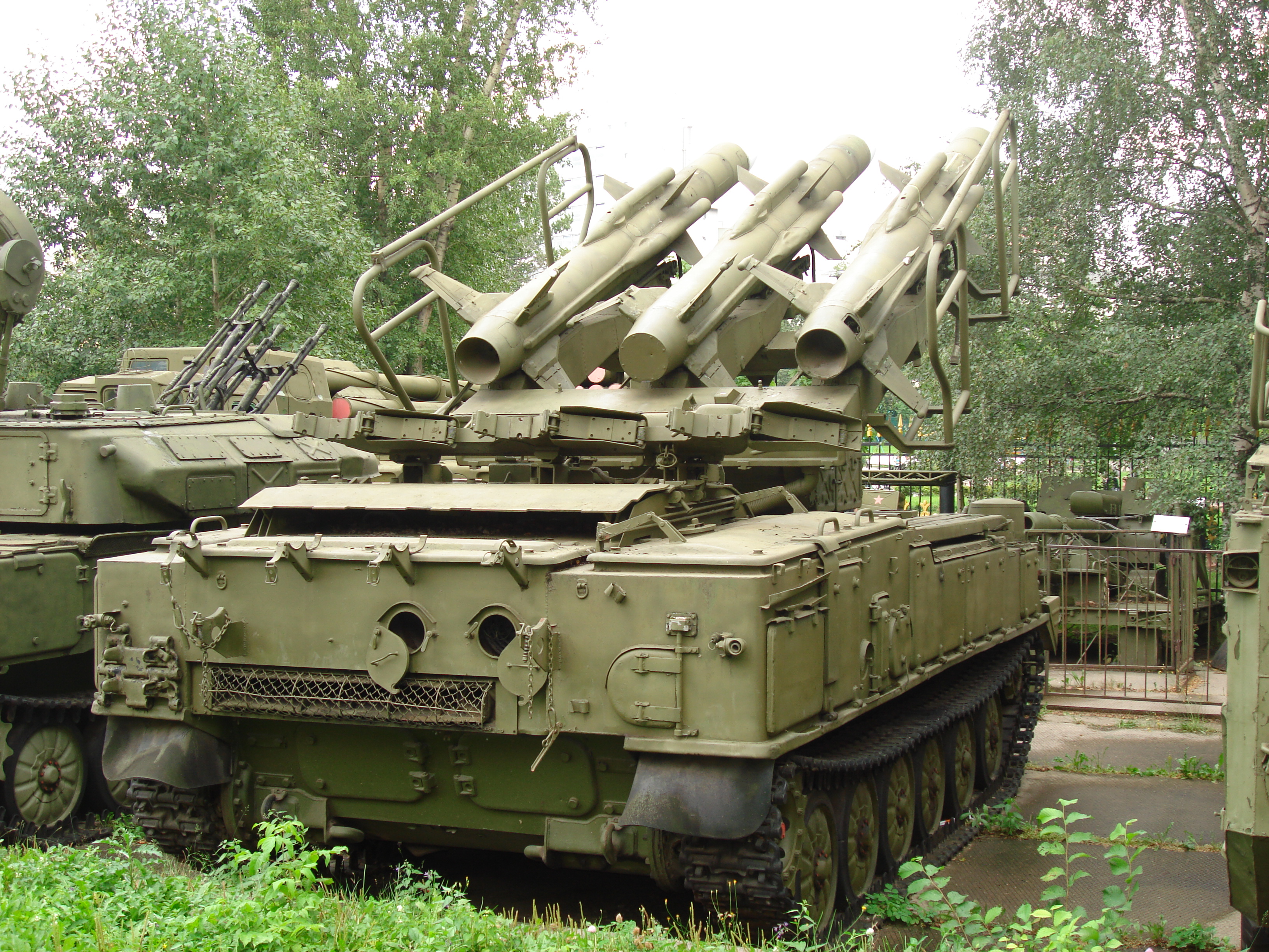 2K12 Kub backside at Central Museum of Russian Armed Forces, Moscow (you can see Shilka on the left)Front view is here: (Federation of American Scientists/FAS website)